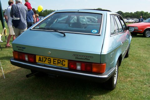 Austin Ambassador Kindly released under GFDL by Kevin Davis of the Austin Princess owners club